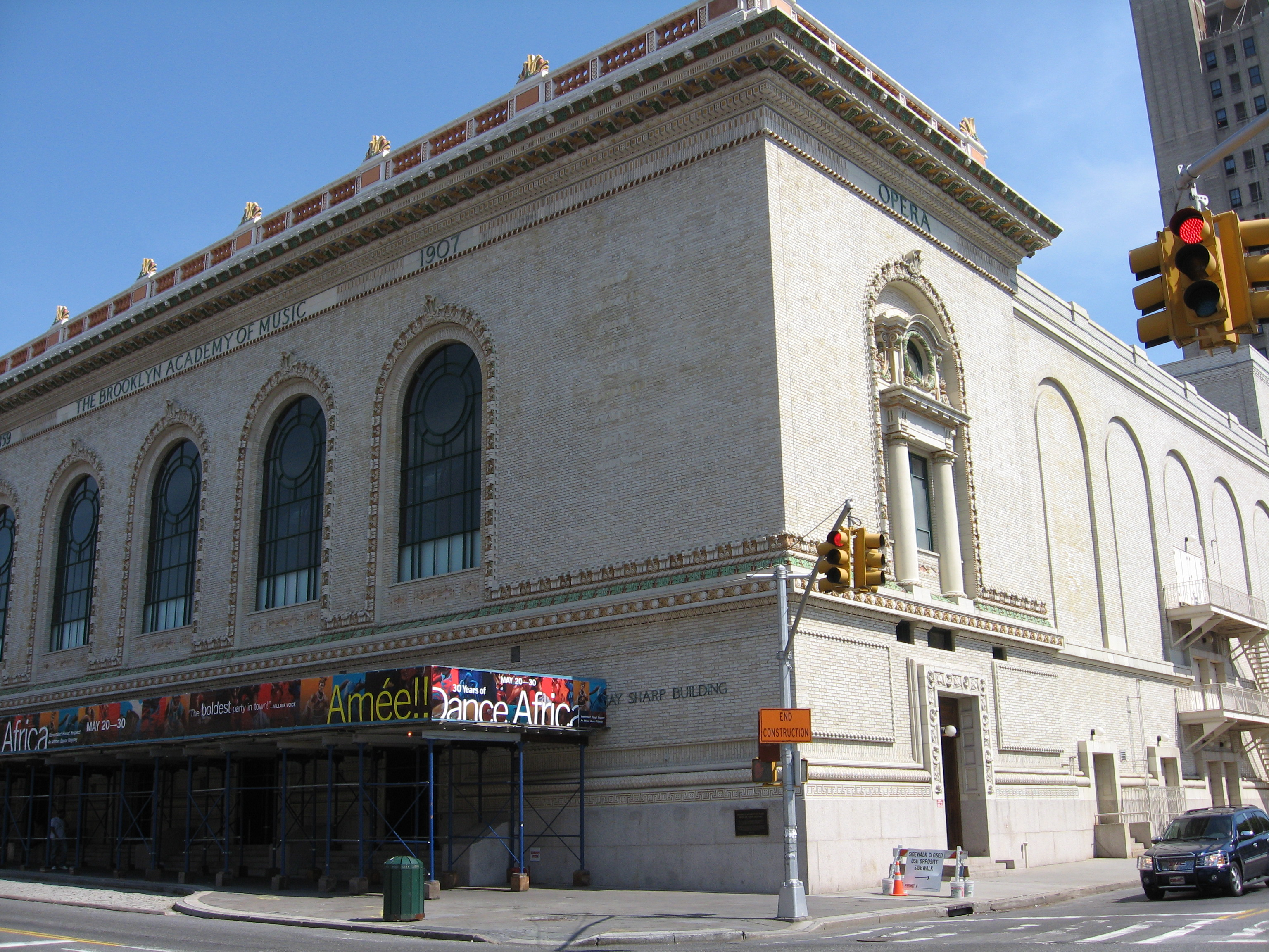 A building of the Brooklyn Academy of Music in Brooklyn, NY, USA.